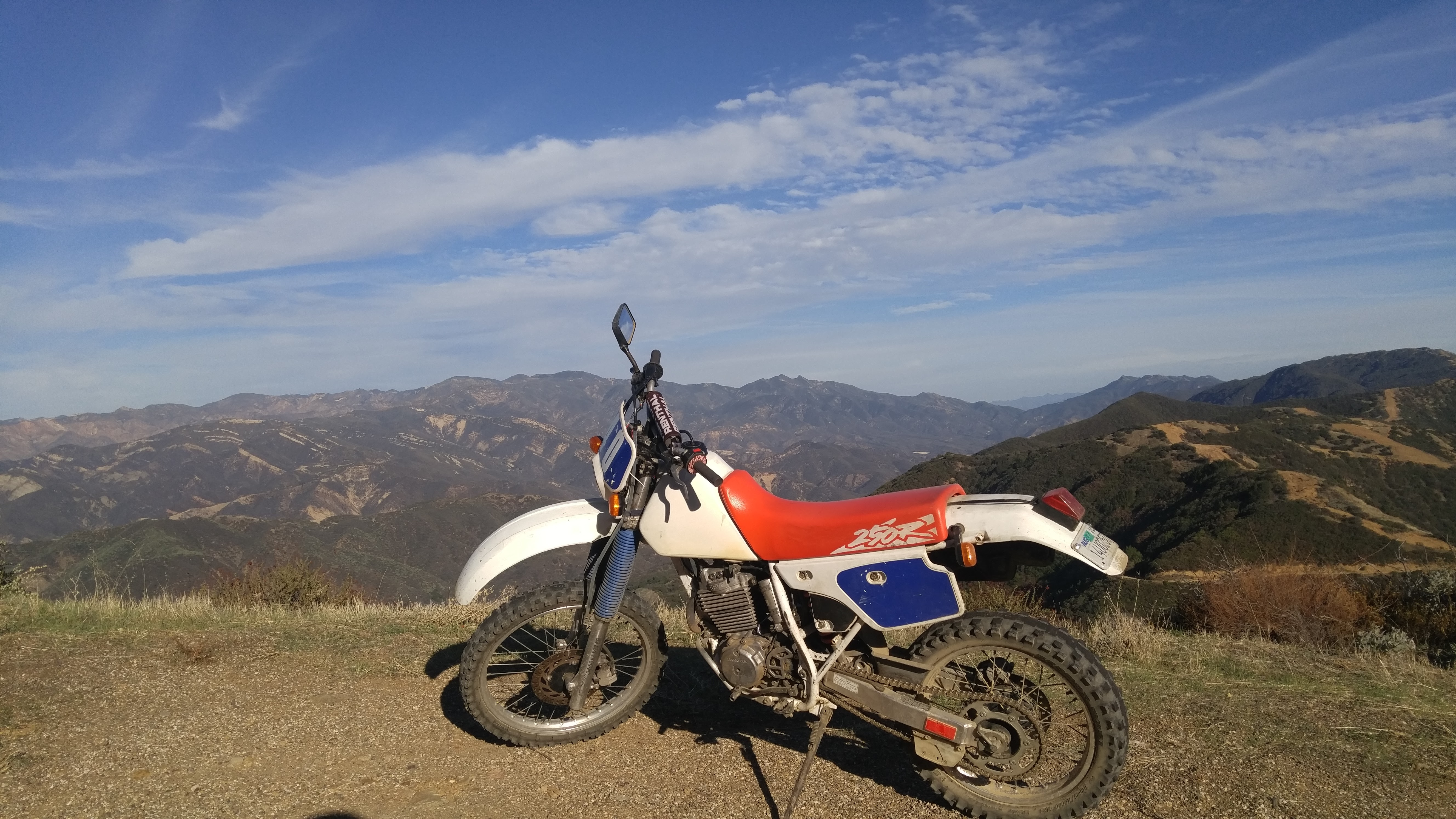 A 1994 Honda XR250R taken in November 2016